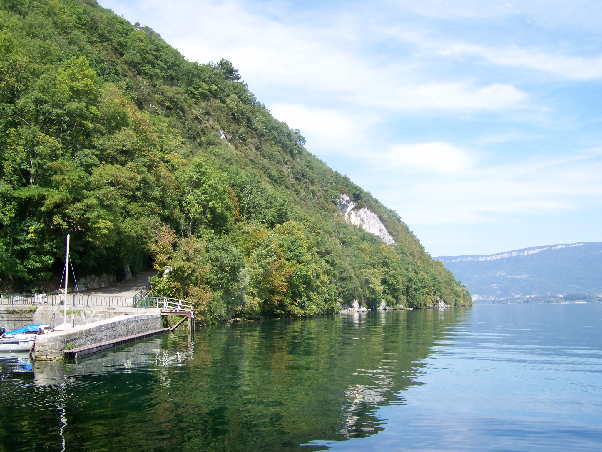 Sight on the Bourget lake and the tiny Bourdeau harbour in Savoie, France.